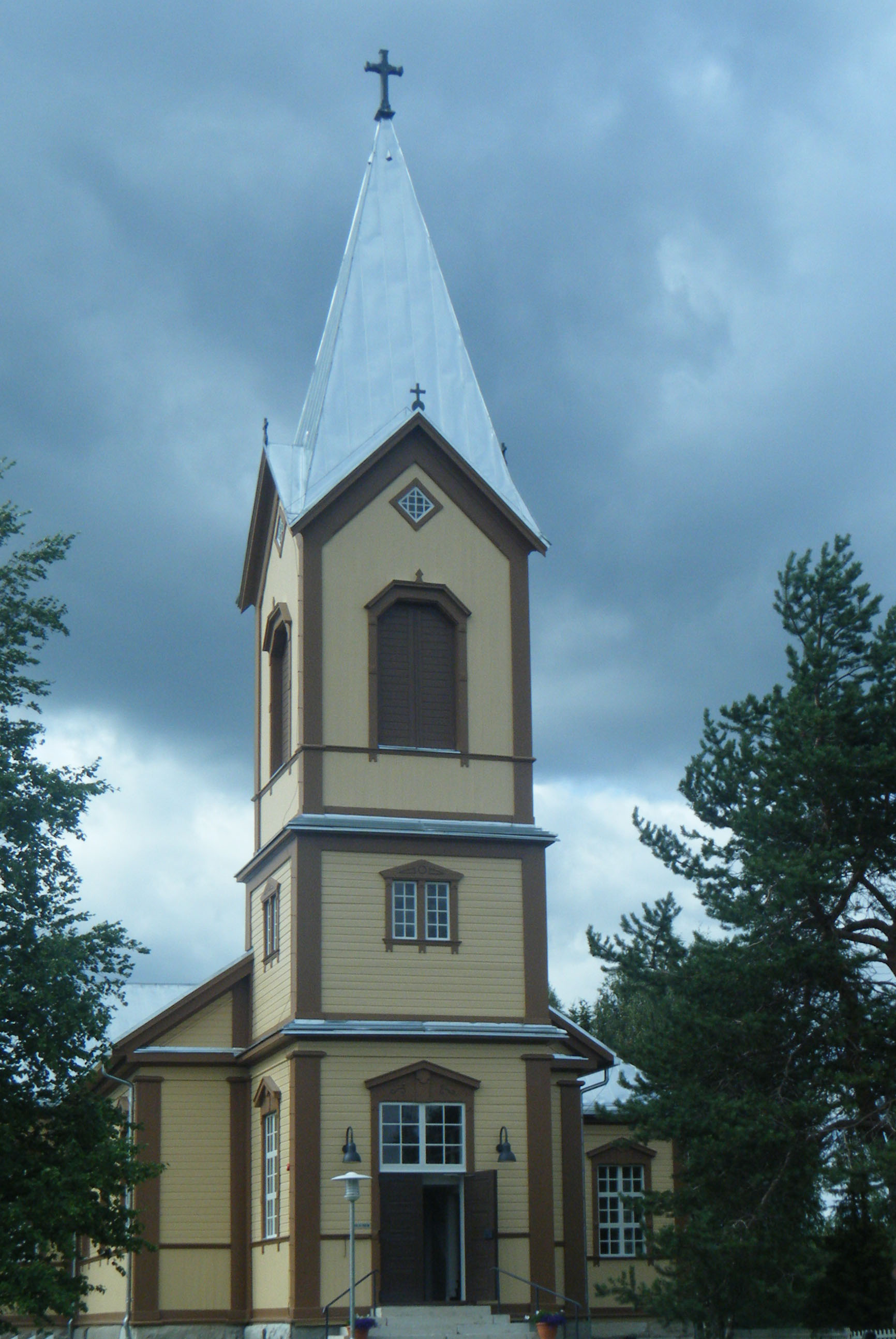 wooden church in Kittilä, Finland, 19th century